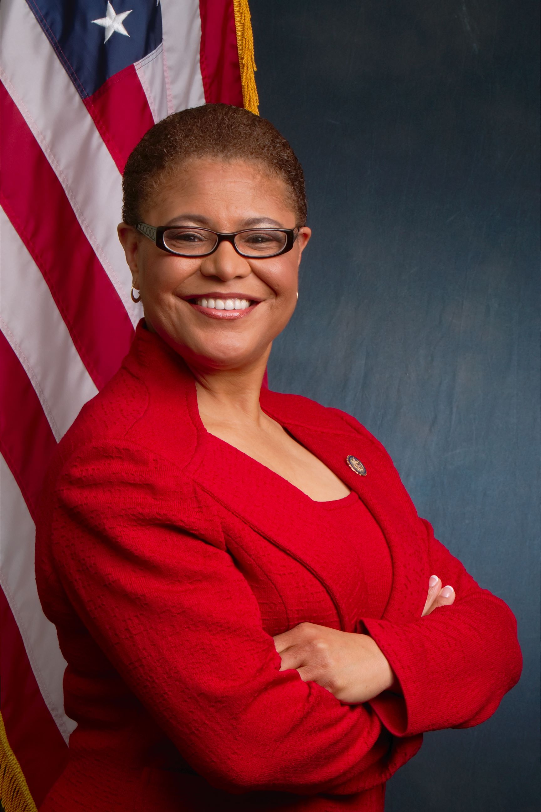 113th Congress official portrait of Congresswoman Karen Bass (D-California)